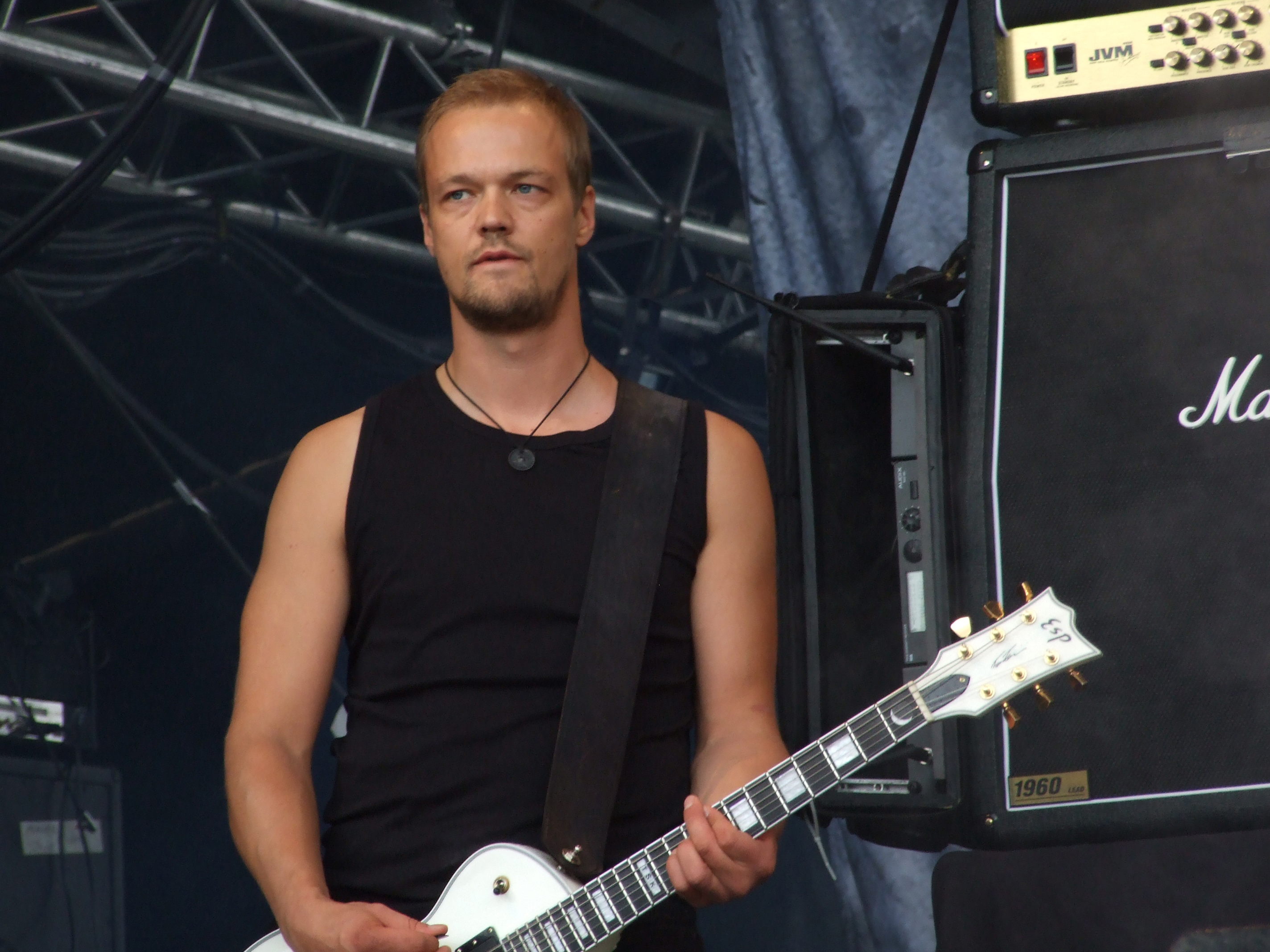 Tomi Koivusaari performing live with Amorphis at Jurassic Rock 2008 in Mikkeli, Finland. Photo: Tina Solda